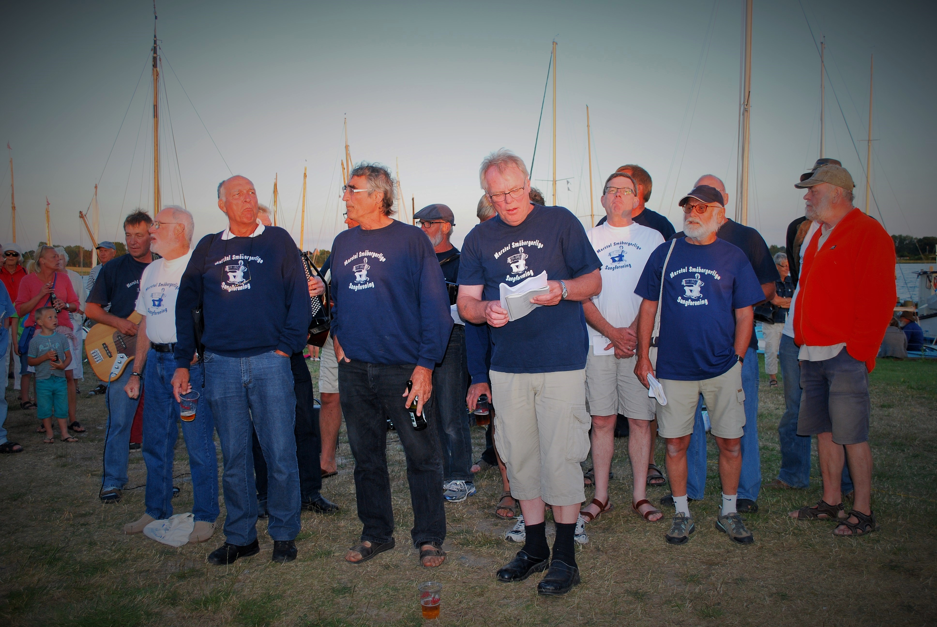 Marstal Småborgerlige Sangforening, Ærø, Denmark